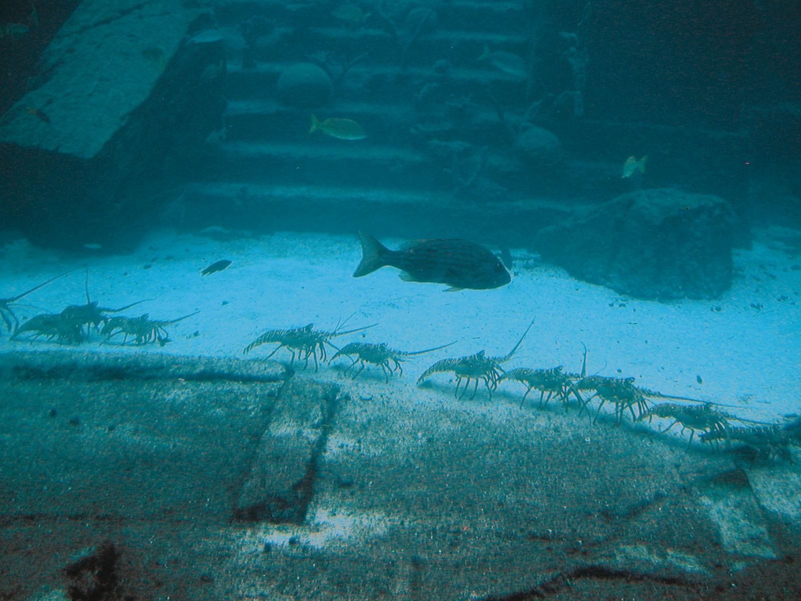 Spiny lobsters (Palinuridae) march across Atlantis ruins. Aquariums feature artifacts from the lost world at Atlantis, Paradise Island, Nassau, Bahamas.